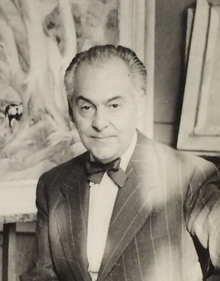 Carlos Isamitt. Premio nacional de Musica (1965).